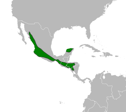 Breeding range of Lesser Roadrunner (Geococcyx velox)